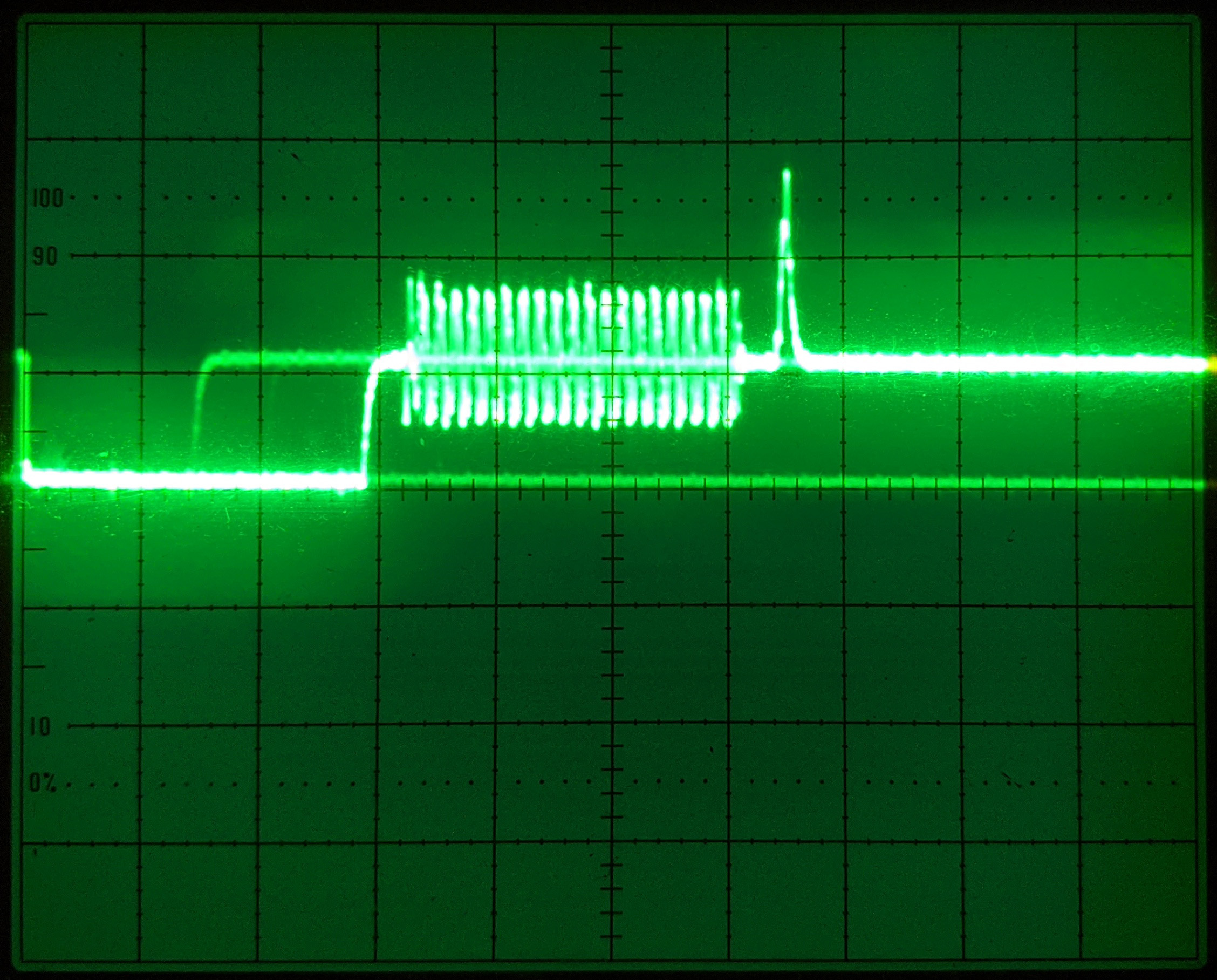 Measured on a Tektronix 2235 oscilloscope to demonstrate that a Commodore 64 typically outputs a bright pixel on the extreme left of the image (normally hidden by overscan). The horizontal sync pulse and colourburst are visible to the left and centre, and the bright pixel is visible just right of centre. The remainder of each line is completely black, as set by simple POKE commands.